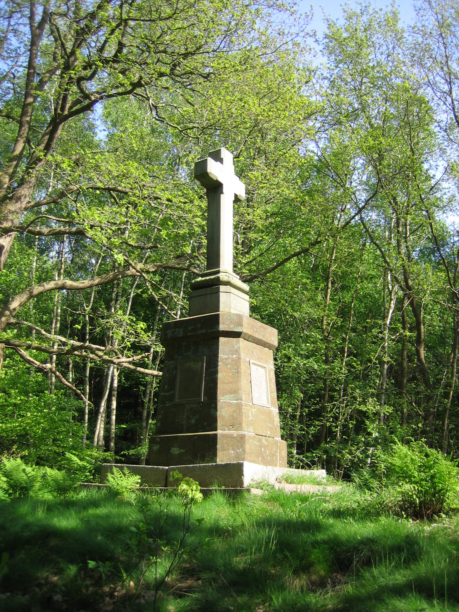 Illjes Mausoleum Weissenberg